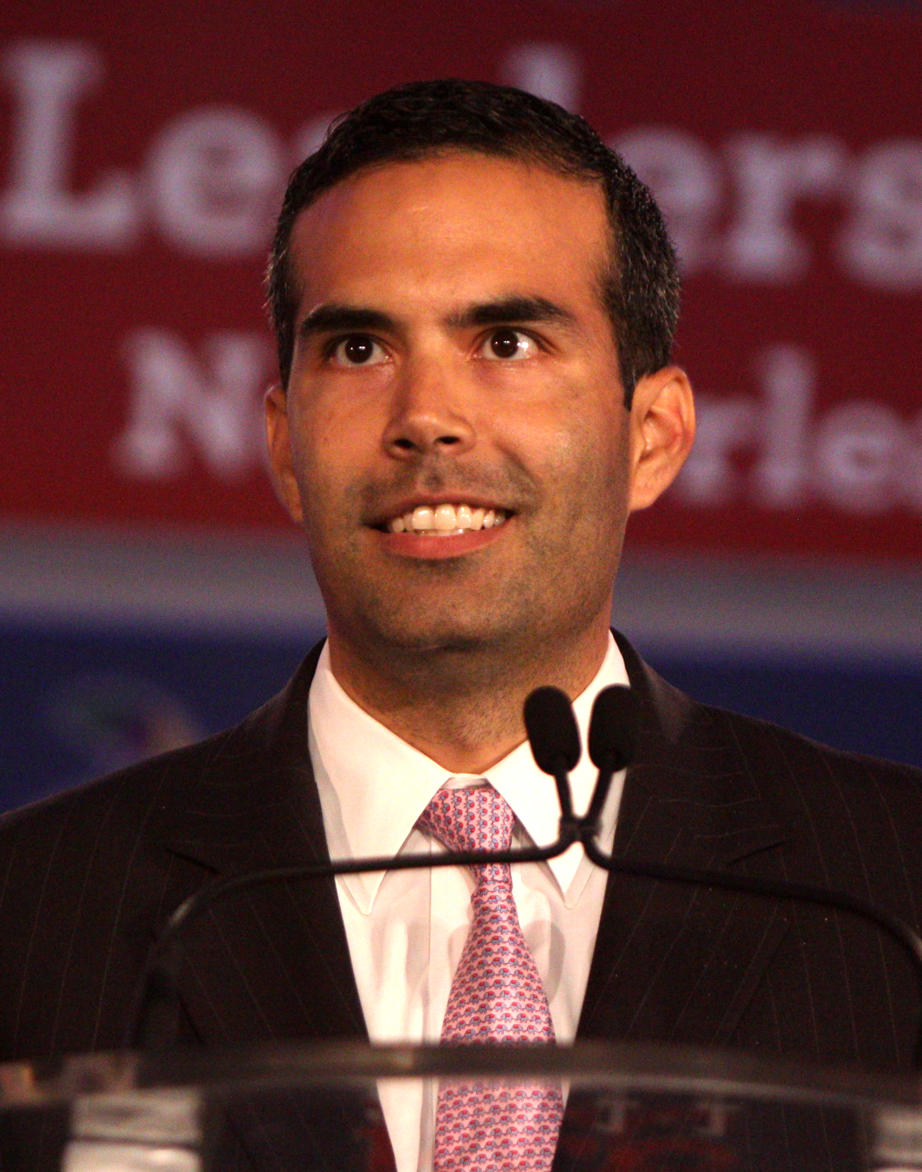 George P. Bush at the Republican Leadership Conference in New Orleans, Louisiana.